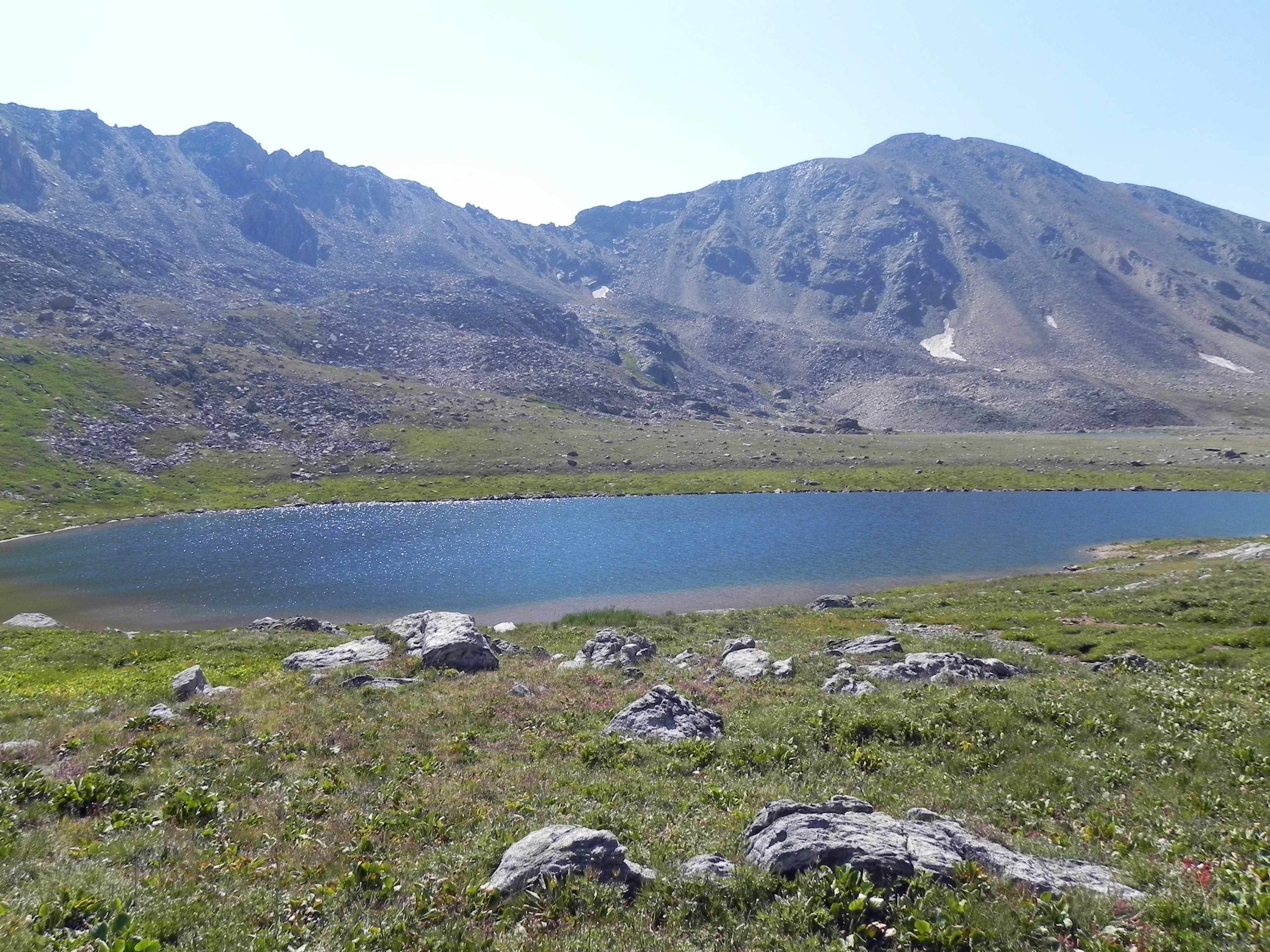 Independence Lake below Twining Peak in the Sawatch Range and Hunter-Fryingpan Wilderness of White River National Forest